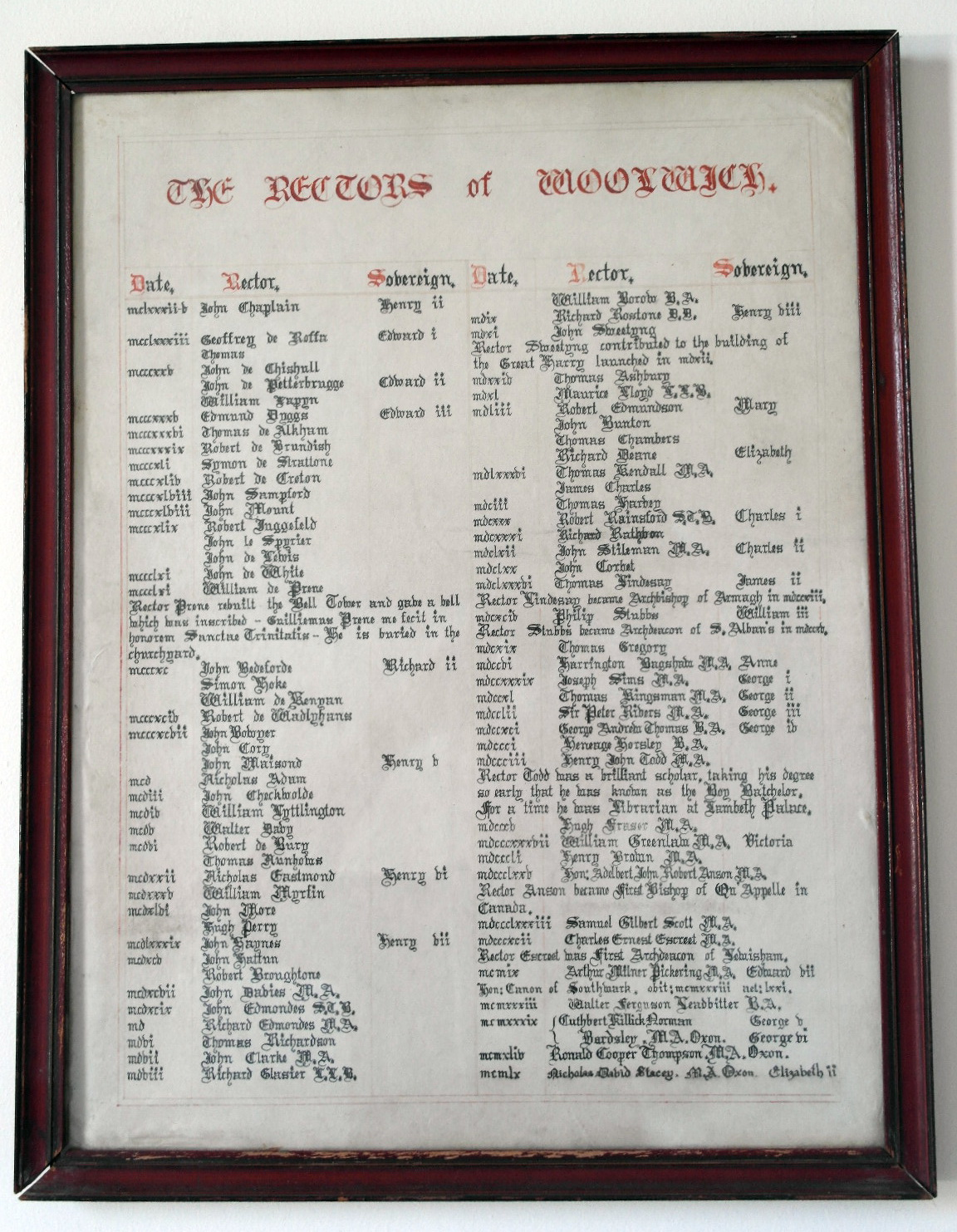 List of rectors of Woolwich 1182-1960 in the porch of the 18th-century parish church of St Mary Magdalene, Woolwich, Southeast London.